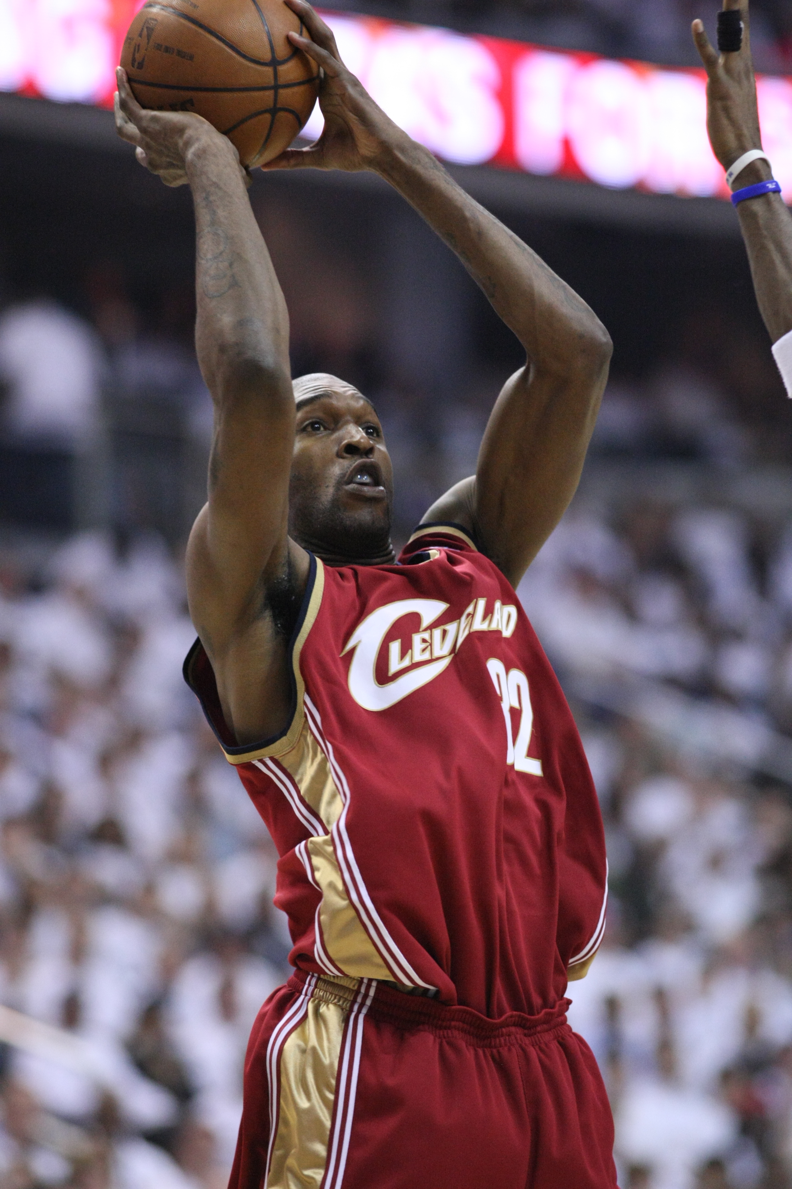 Joe Smith playing with the Cleveland Cavaliers